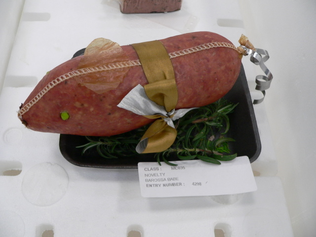 An entry in the smallgoods section of the 2005 Gawler Show